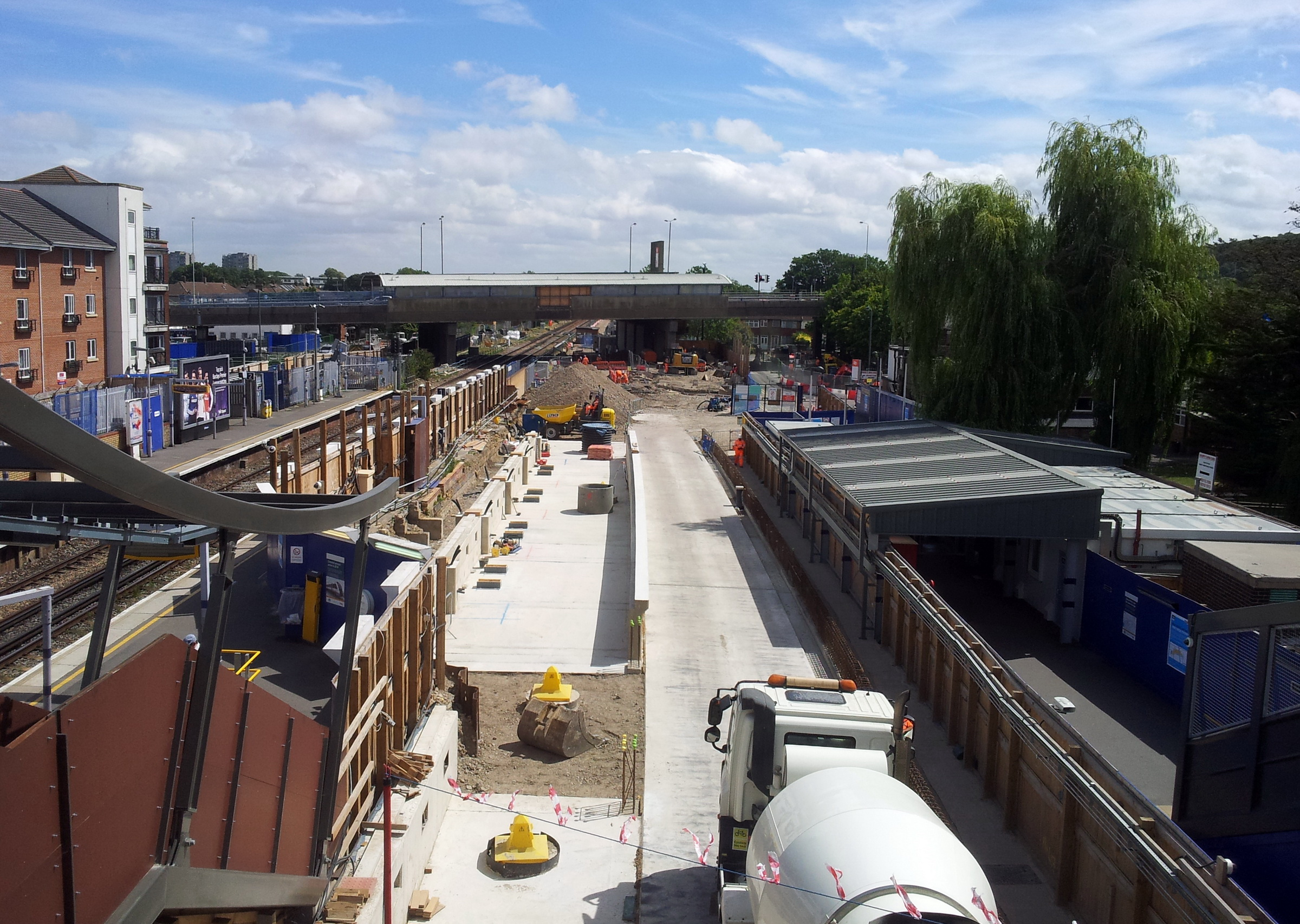 View towards the west of Abbey Wood Railway Station during reconstruction in anticipation of Crossrail, Abbey Wood, South East London.